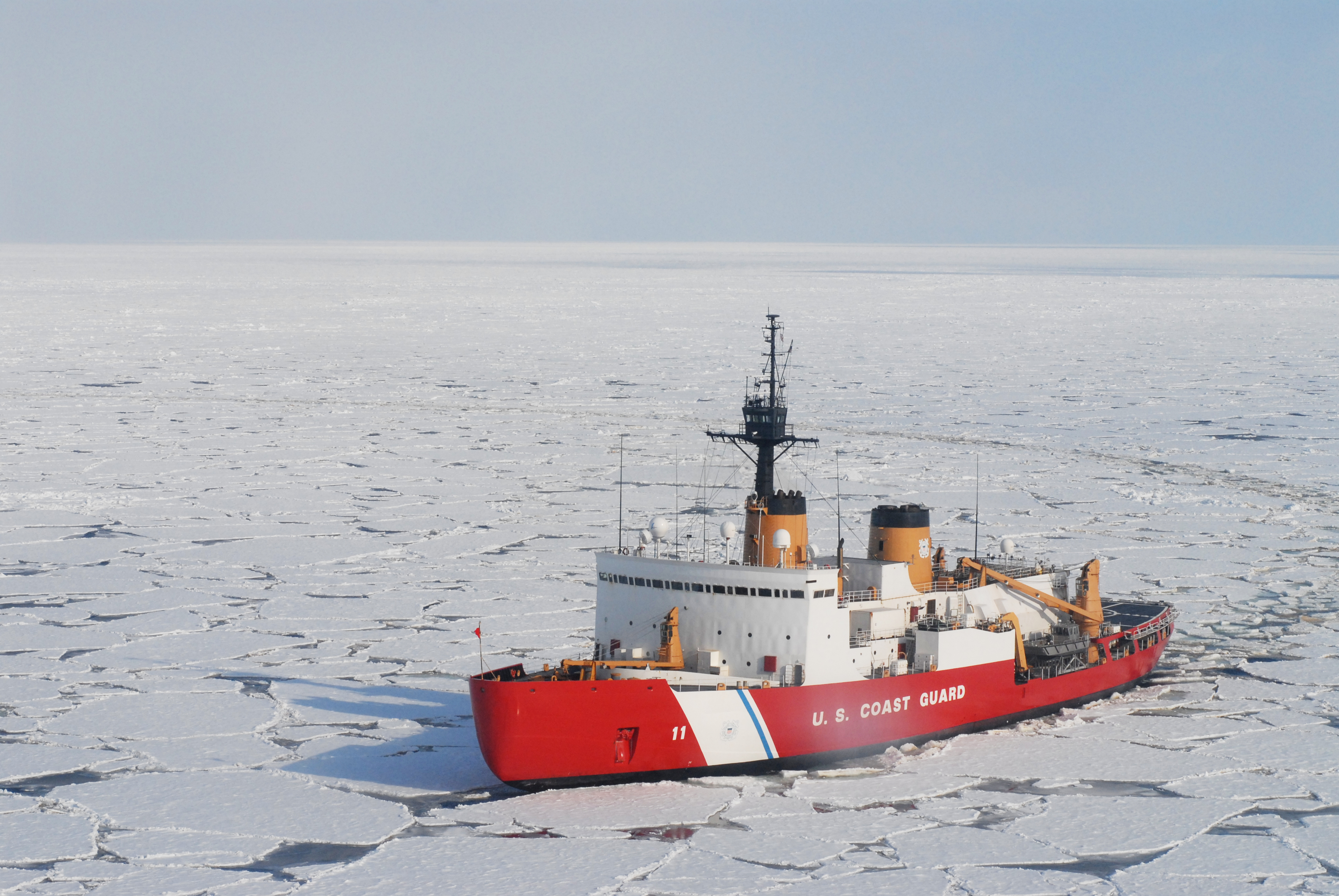 091120-G-0000X-001 BEAUFORT SEA (Nov. 20, 2009) An international research expedition being conducted in the Beaufort Sea aboard the Coast Guard heavy icebreaker ship USCGC Polar Sea, WAGB-11, organized and led by the Naval Research Laboratory (NRL)‚ Marine Biogeochemistry section.